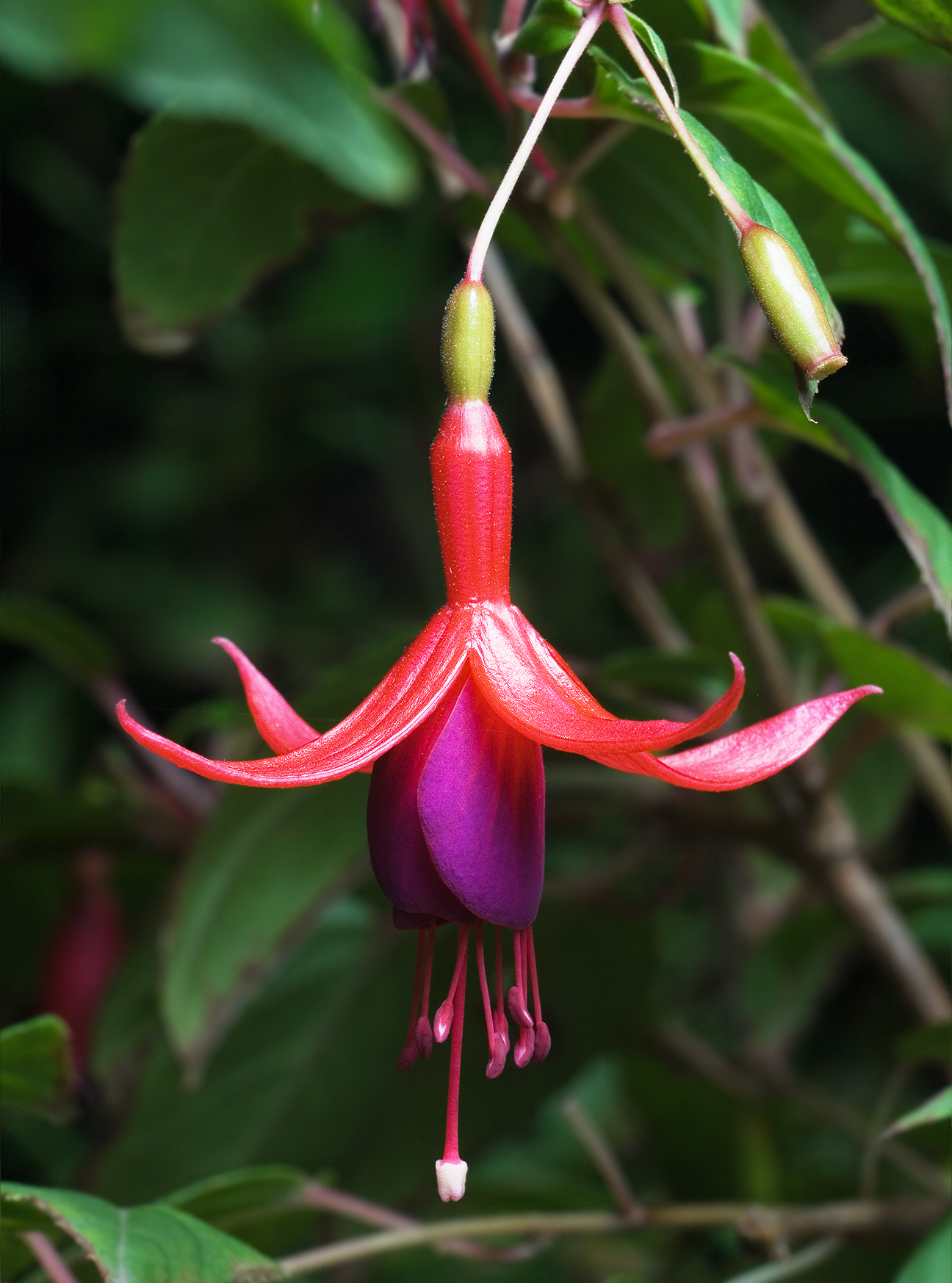 Fuchsia Magellanica Camera data Camera Canon EOS 400D Lens Canon EF 70-200mm f4L w/ 12mm extension tube Flash Shoot through umbrella left Focal length 126 mm Aperture f/11 Exposure time 1/160 s Sensivity ISO 200